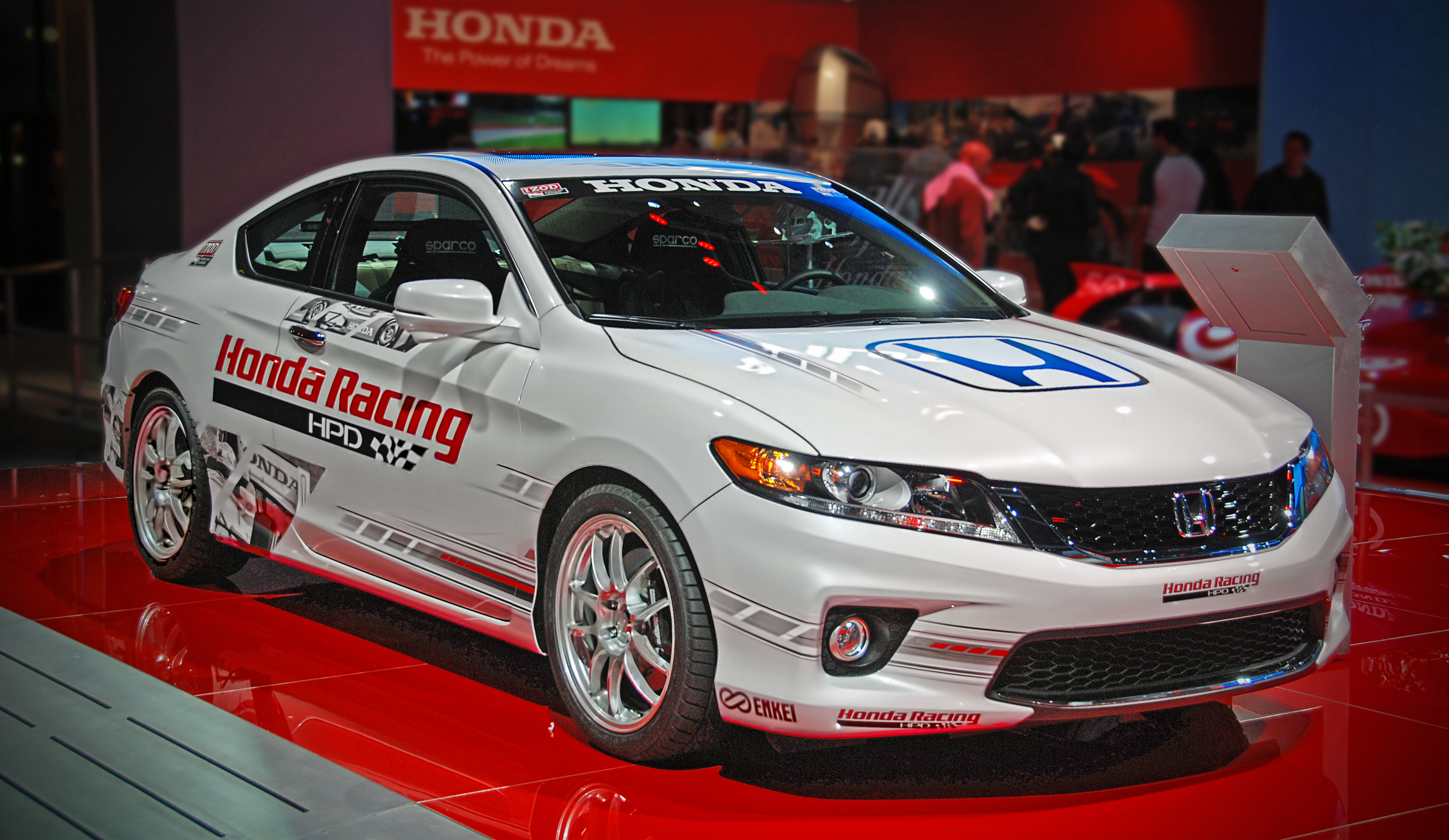 2012 LA Auto Show